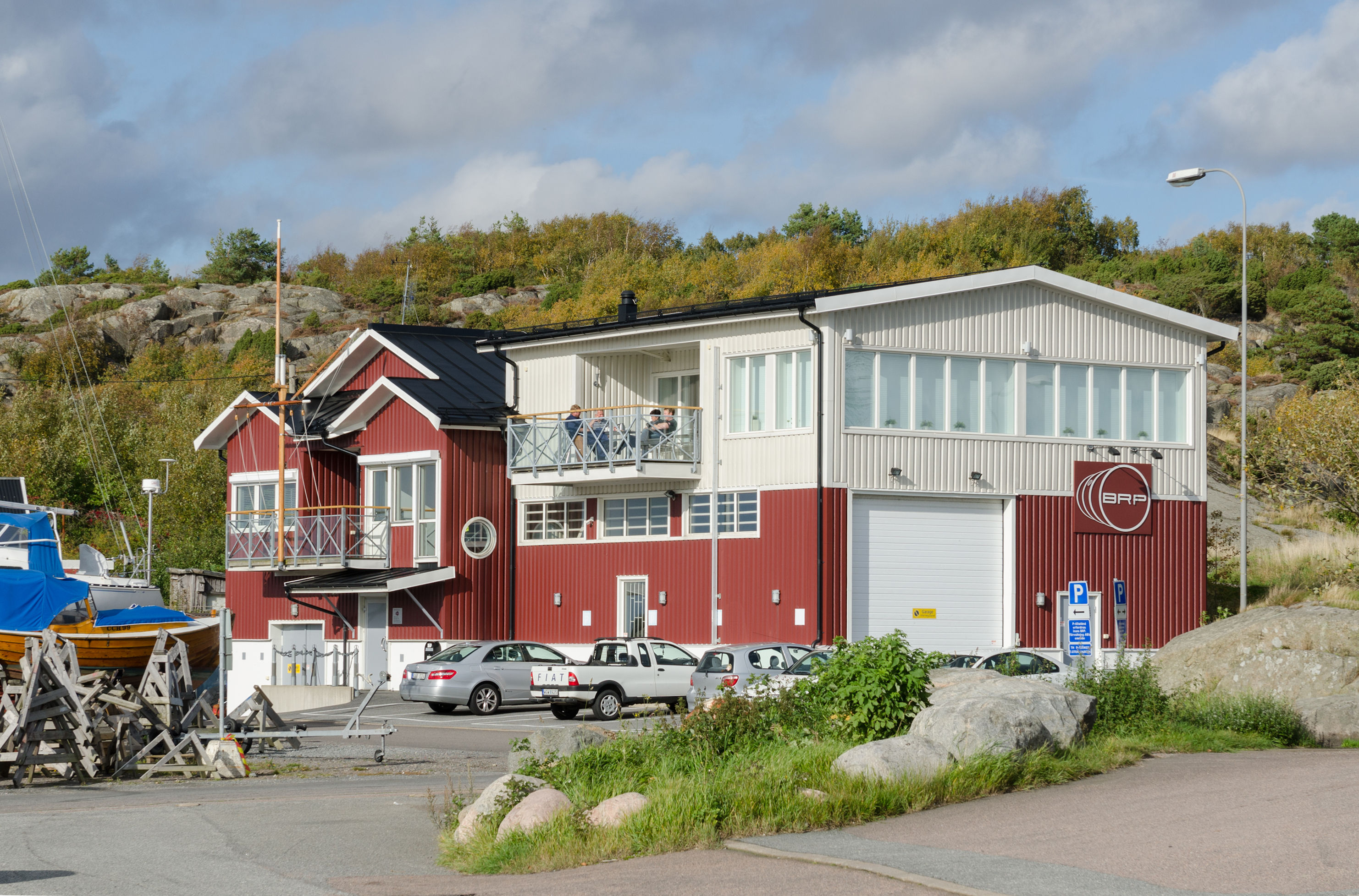 Commercial buildings at the small port in Önnered, Göteborg.